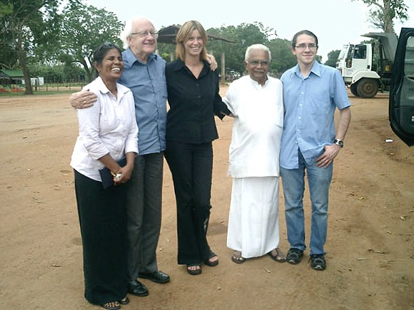 Prof Johan Galtung, in blue shirt second from left, A. T. Ariyaratne, in white second from right, with friends, at the A9 road checkpoint, Dec 04/Jan 05.